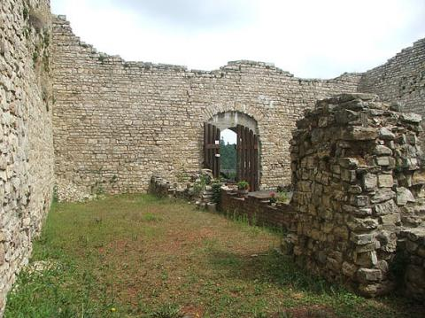 Magyaregregy- castle, Hungary, aerialphotography